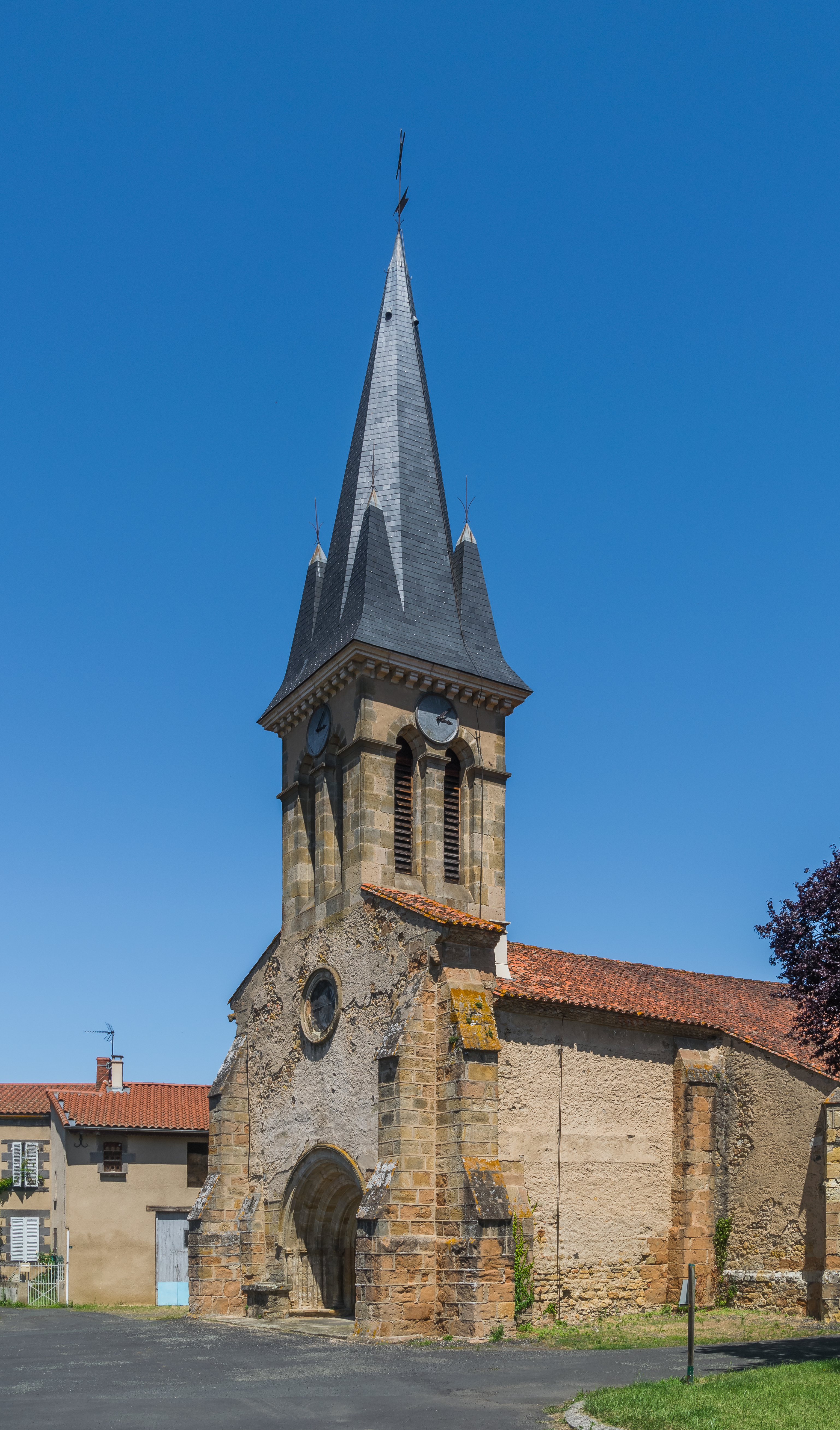 Church of Notre-Dame de Chargnat in Saint-Rémy-de-Chargnat, Puy-de-Dôme, France .